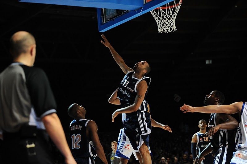 Cyril Akpomedah, basket-ball player.